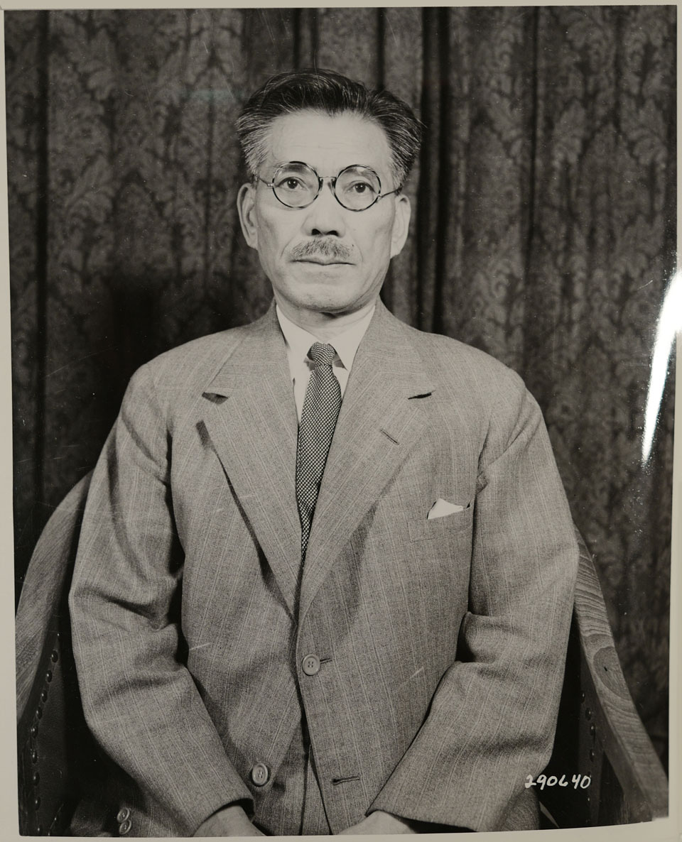 Toshio Shiratori during the trial for war crimes at International Military Tribunal for the Far East